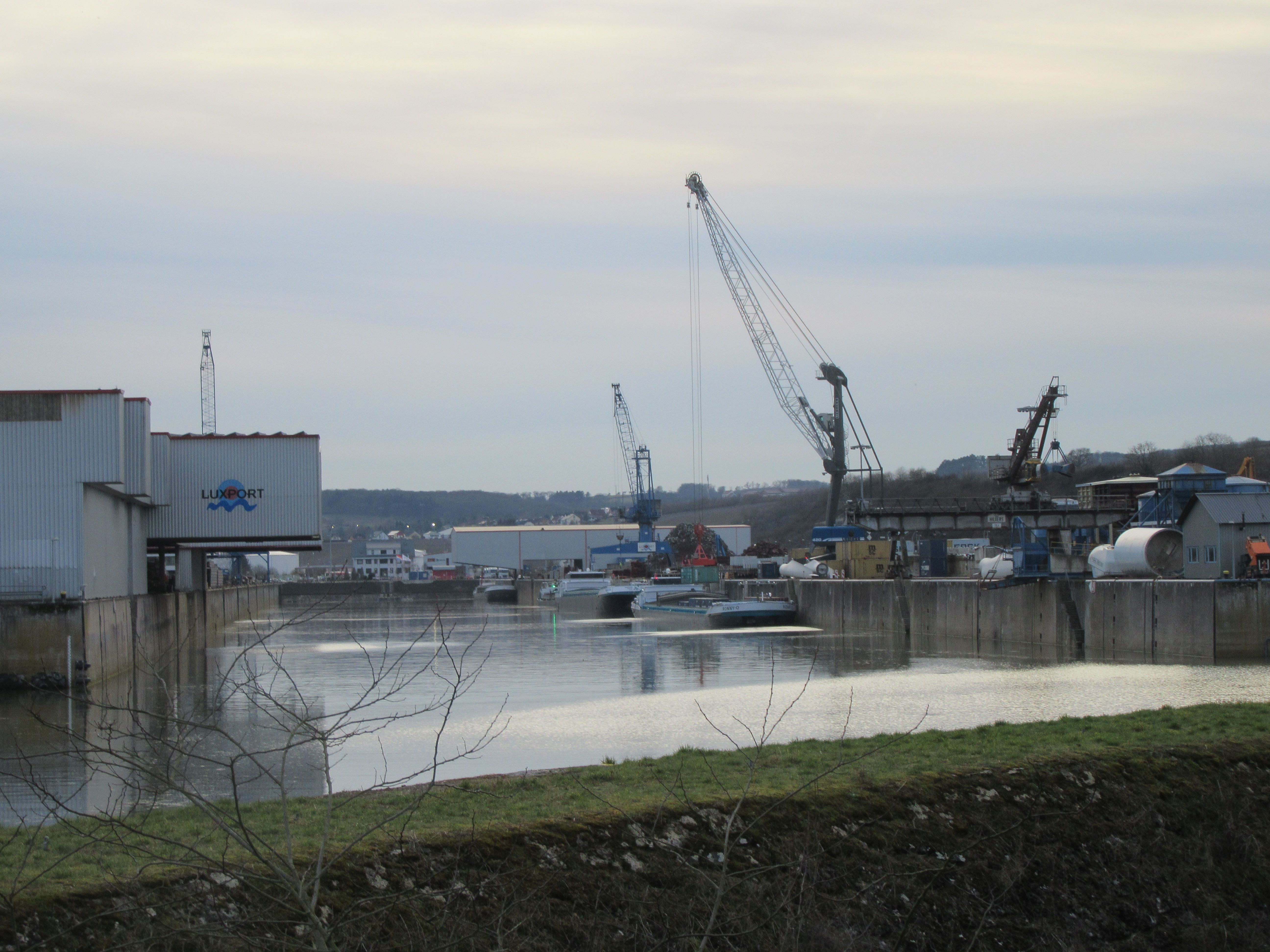 Port de Mertert, Moselle, Luxembourg